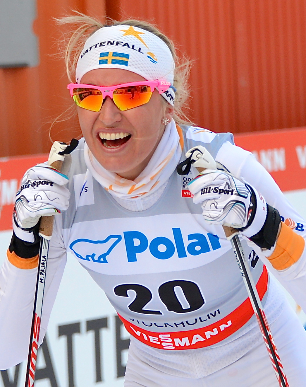 Magdalena Pajala at the Royal Palace Sprint, part of the FIS World Cup 2012/2013, in Stockholm on March 20, 2013.